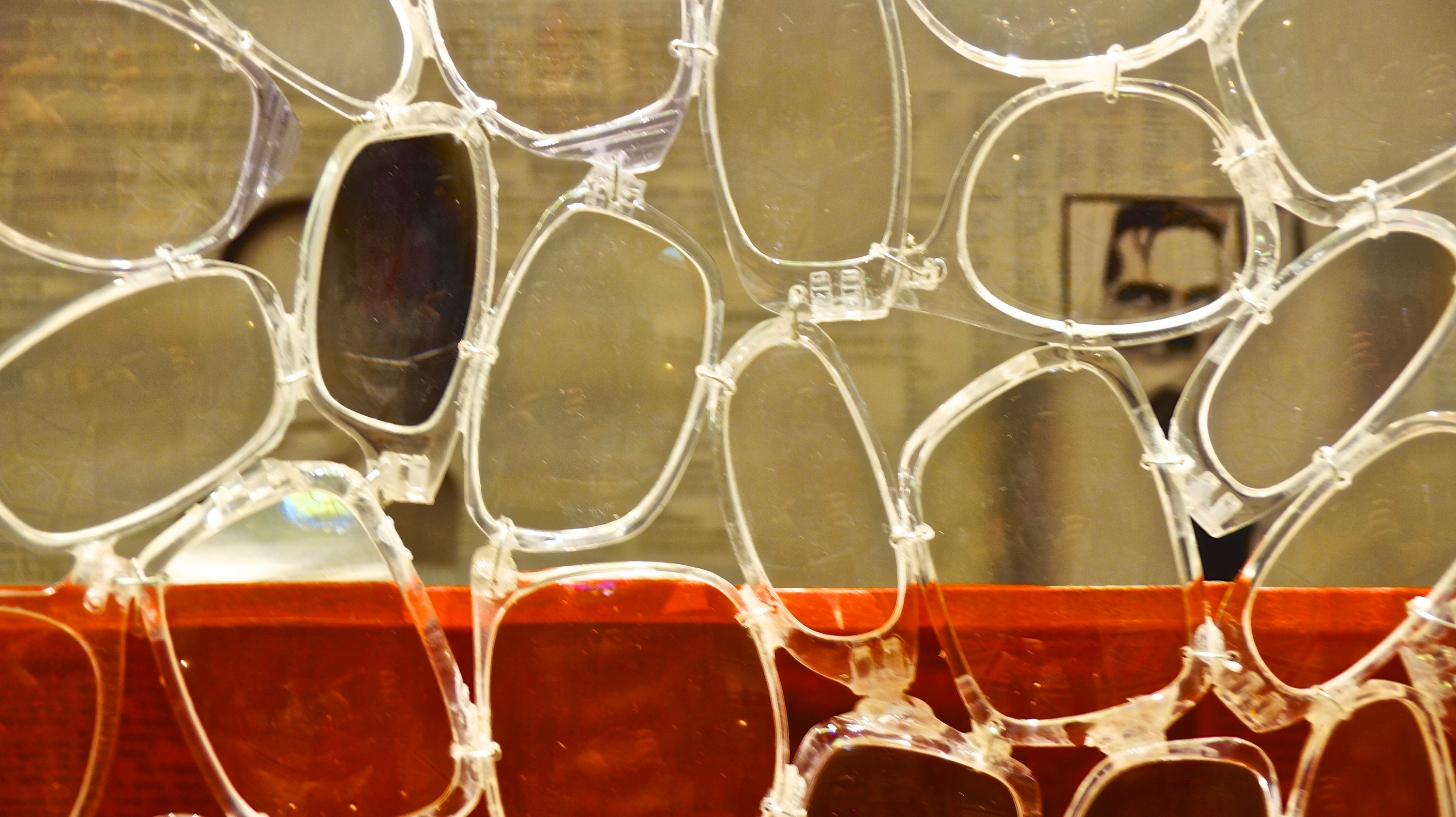 Portrait of America, from David Datuna’s “Viewpoint of Billions” series, is a 12-foot multimedia American flag covered in hundreds of eyeglass lenses.